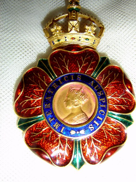 This is Sir M.V.'s actual K.C.I.E. medal. I was privileged to take the photograph when I met his great nephew, Mr. Satish, and he showed it to me. Image taken by Prakahs Subbarao (prksh1 ). Image is in the public domain.